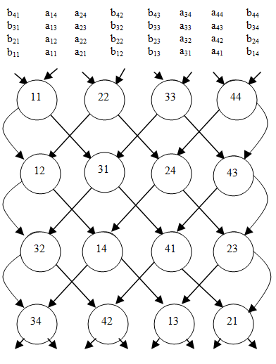 This array multiplies two n×n matrices in 2n-1 steps.